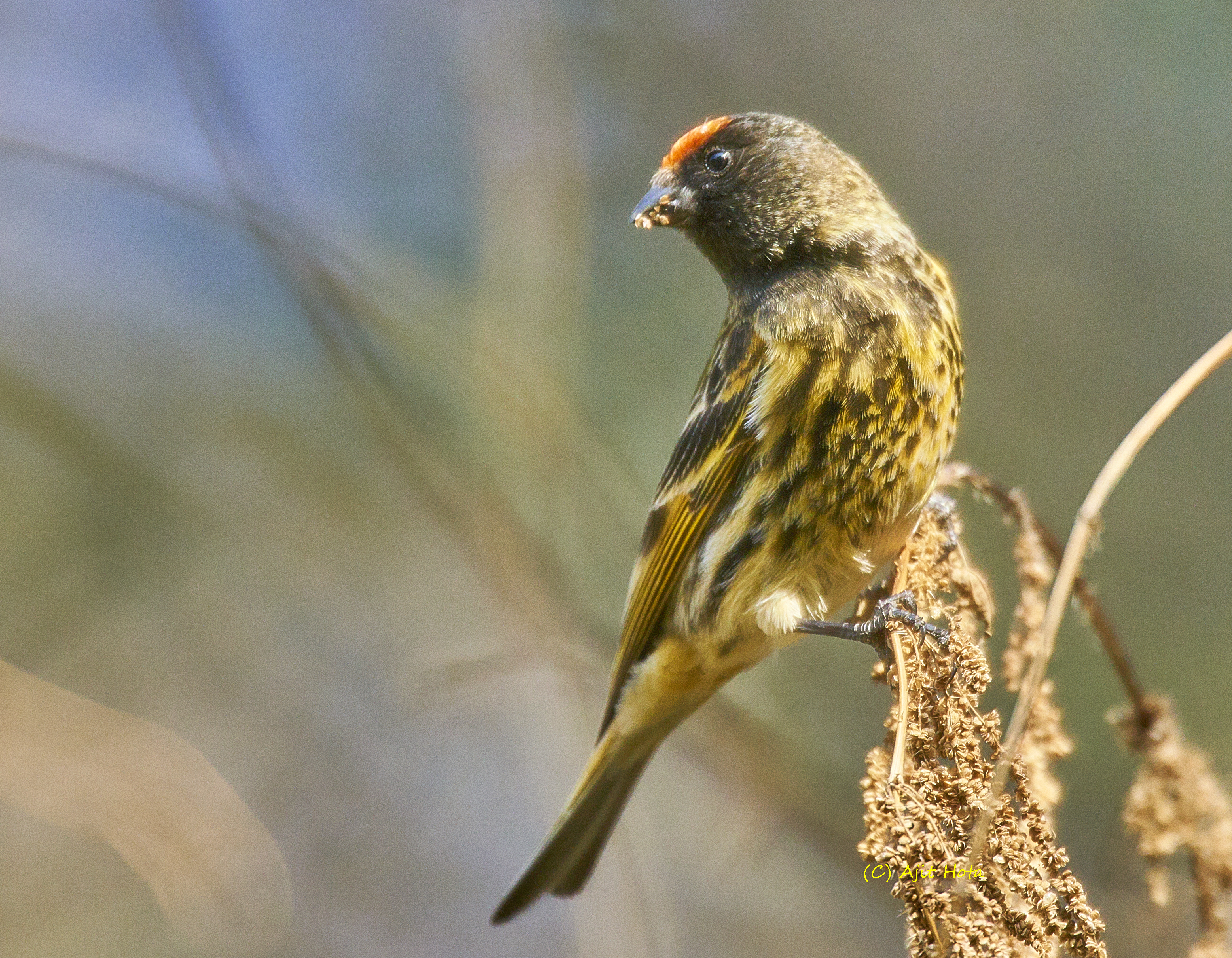 Fire-fronted serin at Deoria Tal